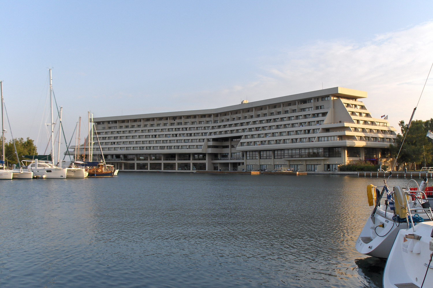 Porto Caras hotel, Chalkidiki, Greece. Picture taken by (WT-shared) Handrian. Image copyright 2007 by (WT-shared) Handrian, dual-licensed under the CC-SA 1.0 (or later) and the GFDL. Taken by (WT-shared) Handrian.